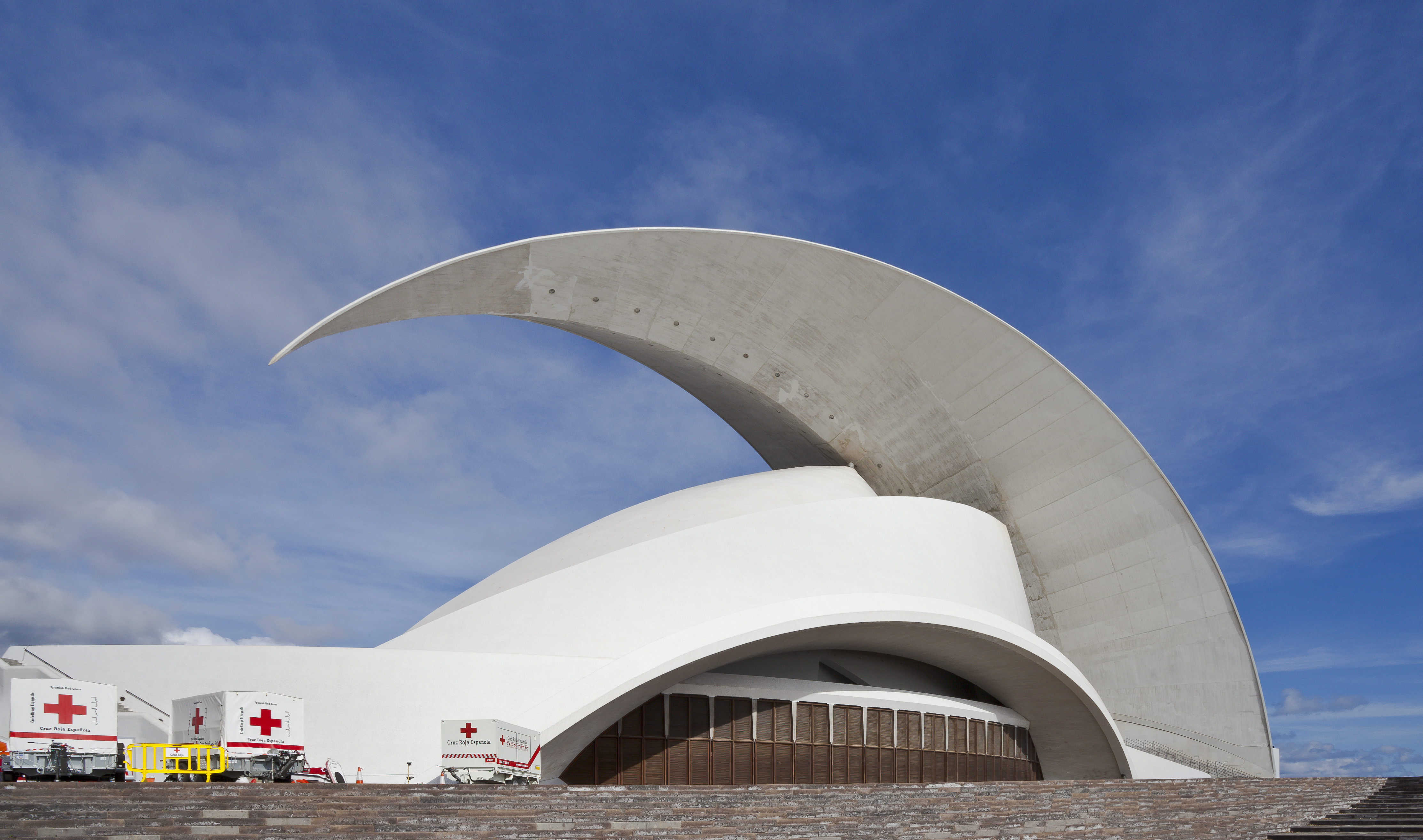 Auditorium of Tenerife, Santa Cruz de Tenerife, Spain